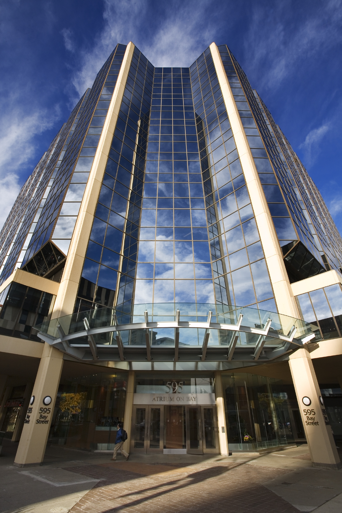 Exterior Entrance to Atrium- 595 Bay Street